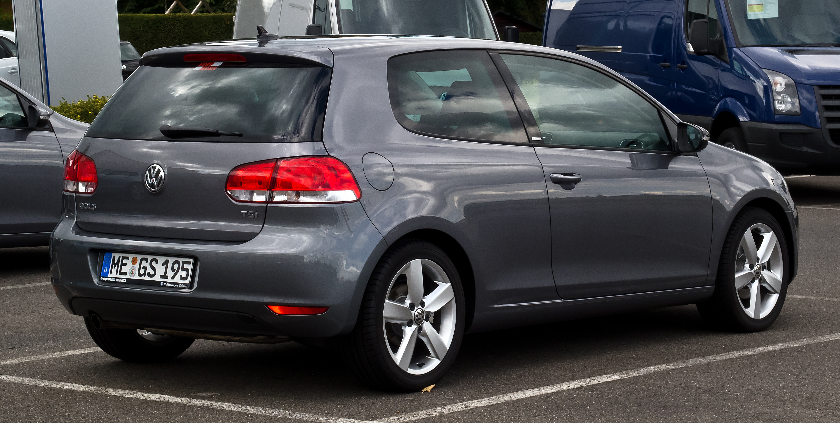 VW Golf 1.2 TSI Style (VI)